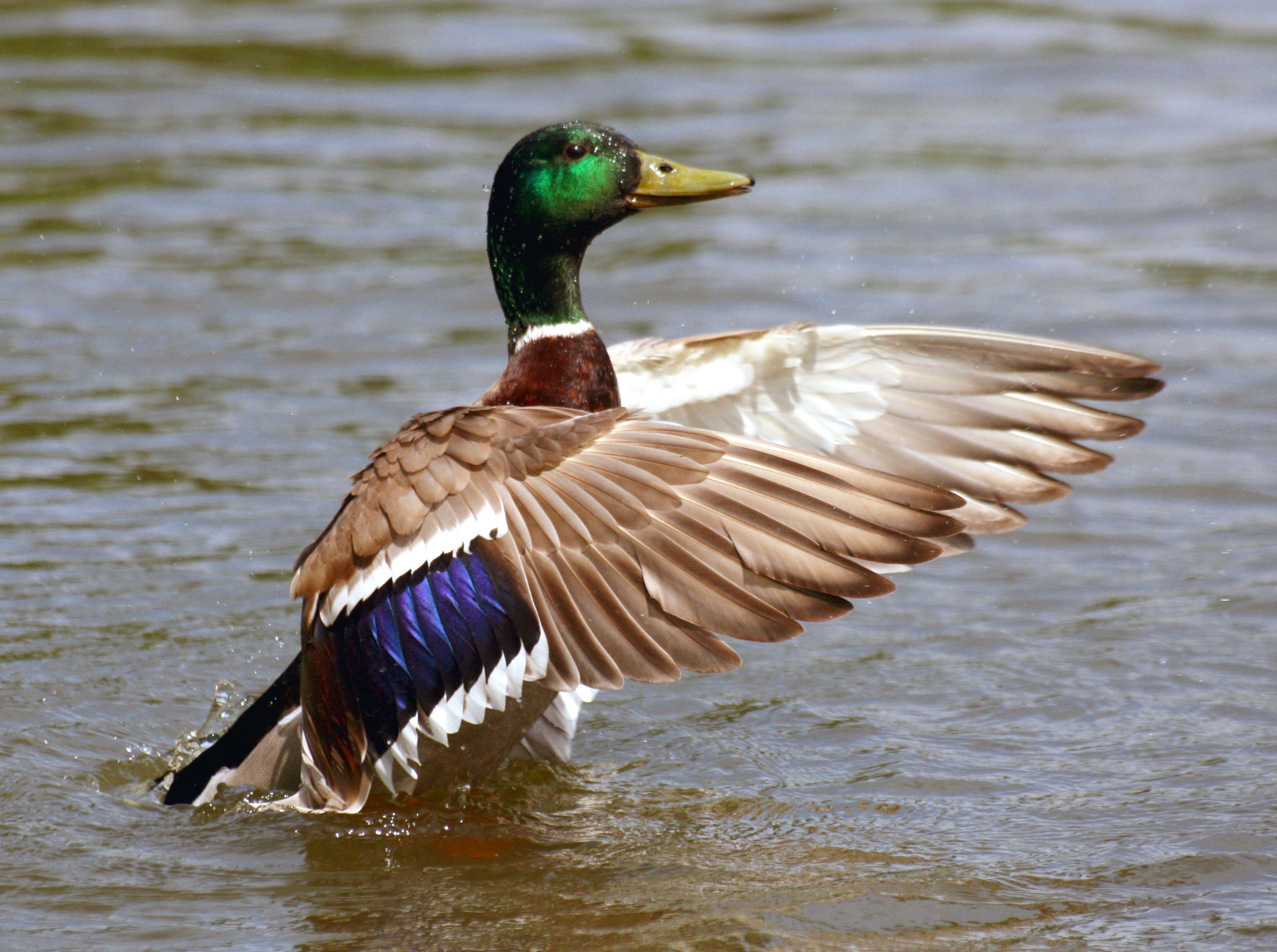 Highest Explore position #328 on May 24th 2008. Duck - Regents Park, London, England - Monday May 5th 2008.